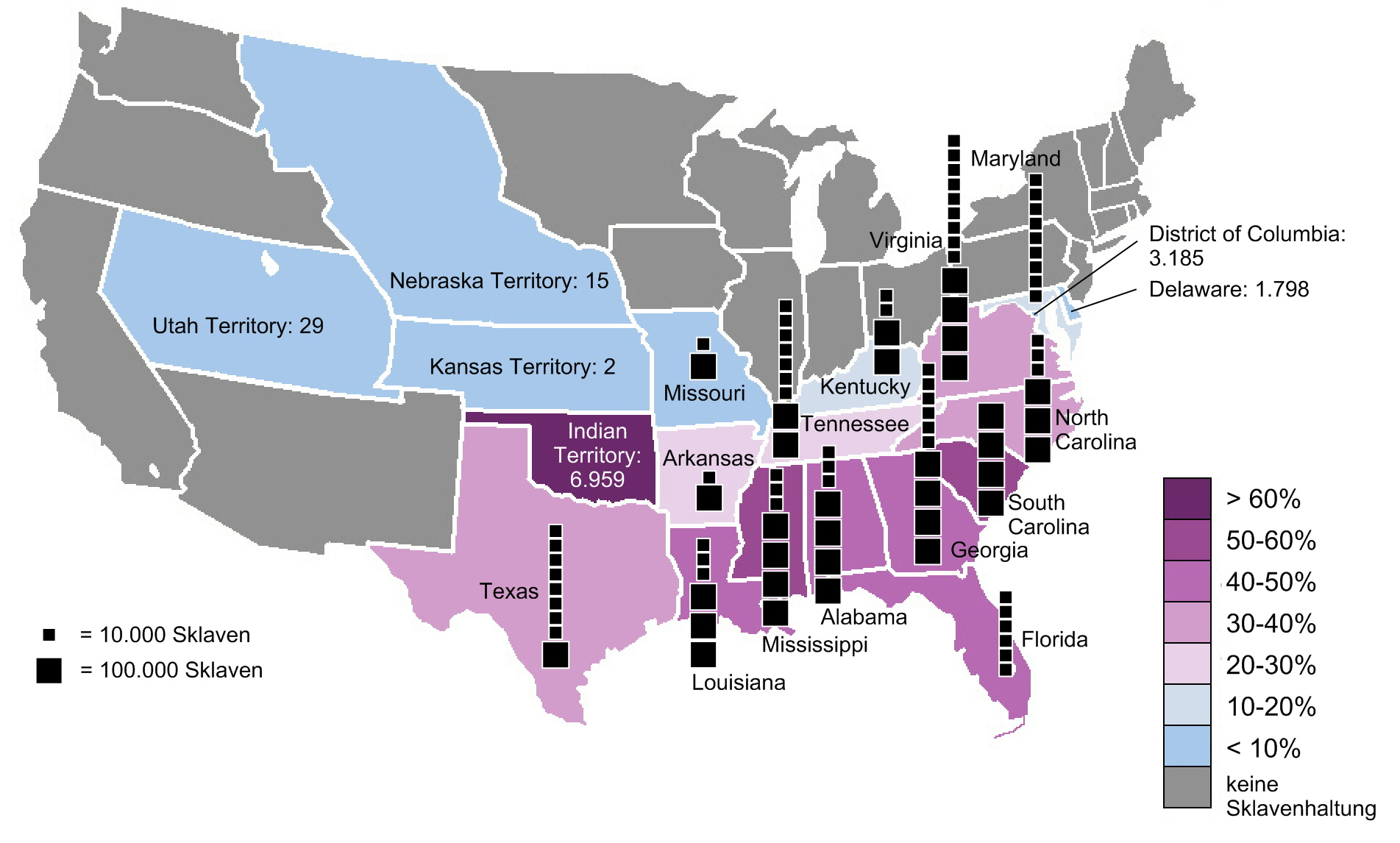 map: United States, 1860, percentage of the slave population in each state/territory; data source: U. S. Census, Indian Territory Census